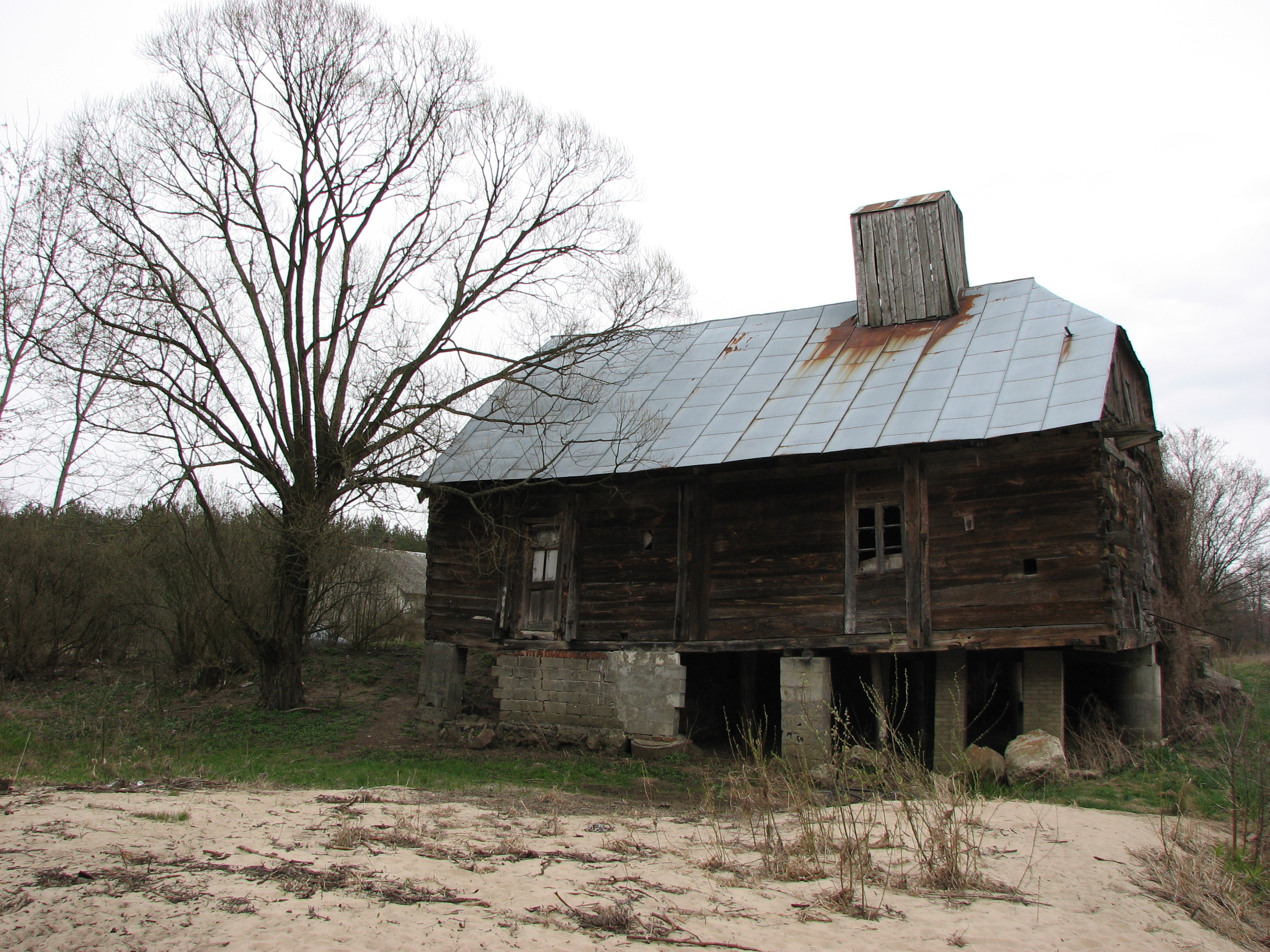 Watermill in Kamionka